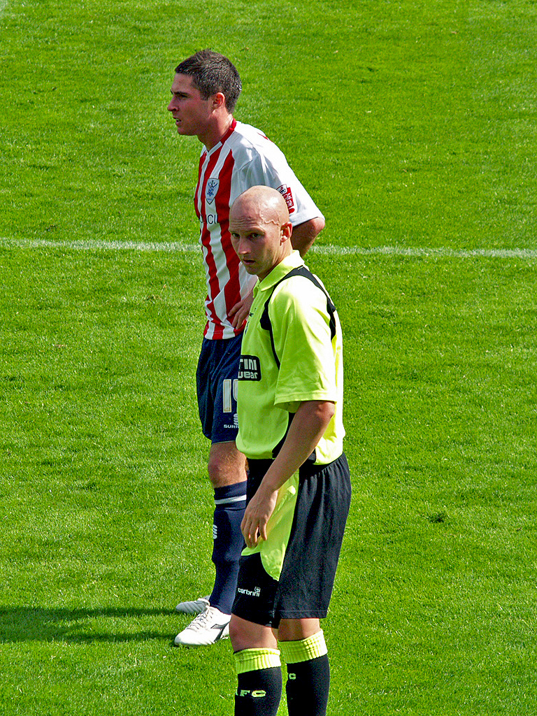 Bury FC midfielder Michael Jones and Oldham Athletic FC midfielder Danny Whitaker during the Bury vs. Oldham Athletic friendly game at Gigg Lane, home of Bury Football Club. Saturday 18th July 2009